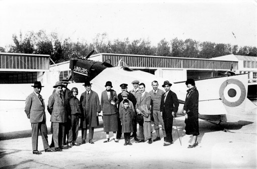 This Junkers A 20 two-seater was the second aircraft of that type in Iran. This picture Was taken in Germany before the delivery flight to Tehran in the autumn of 1925.